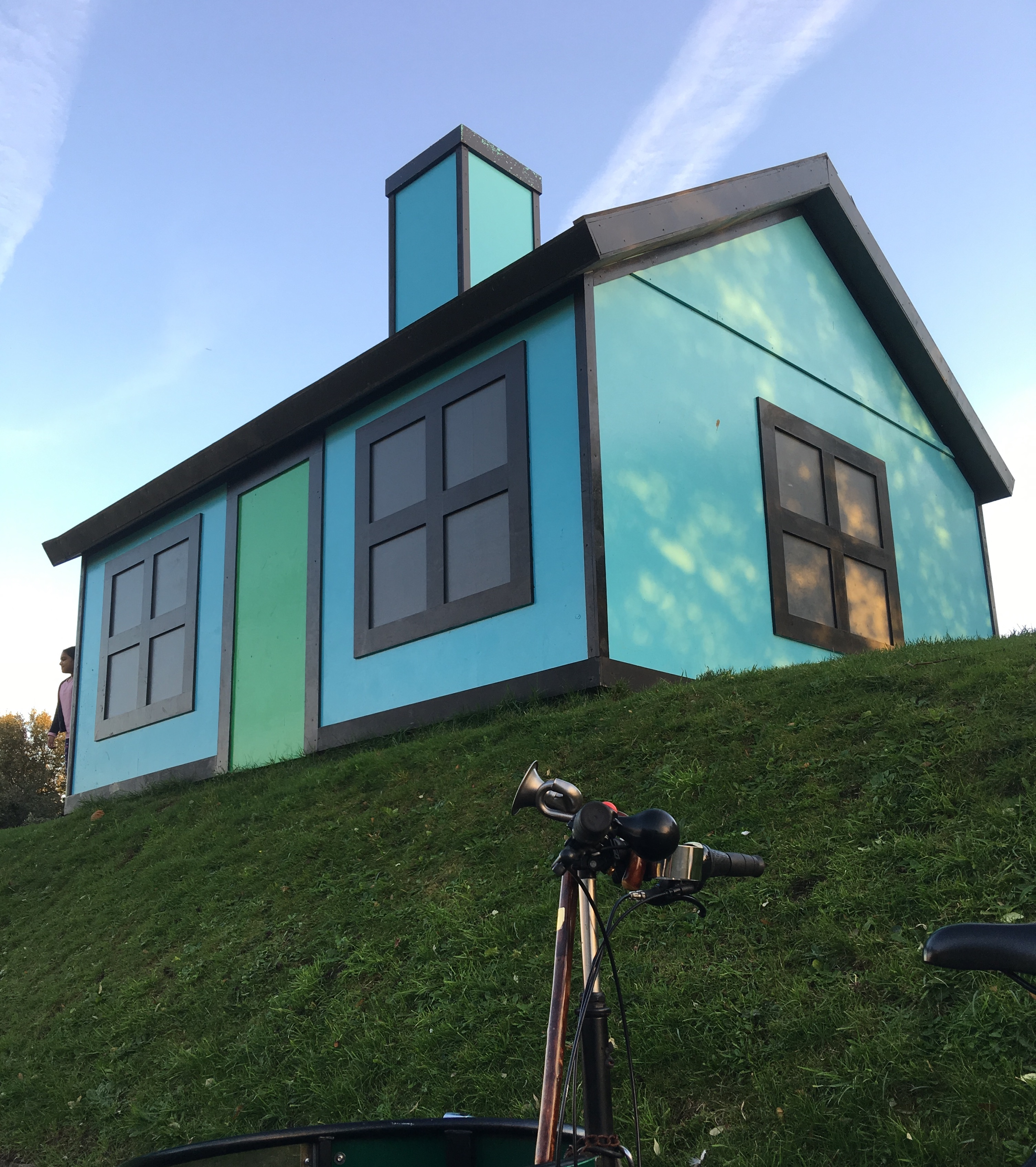 Folkestone Triennial artwork 'Holiday Home' by Richard Woods. Situated on The Leas, Folkestone in 2017.